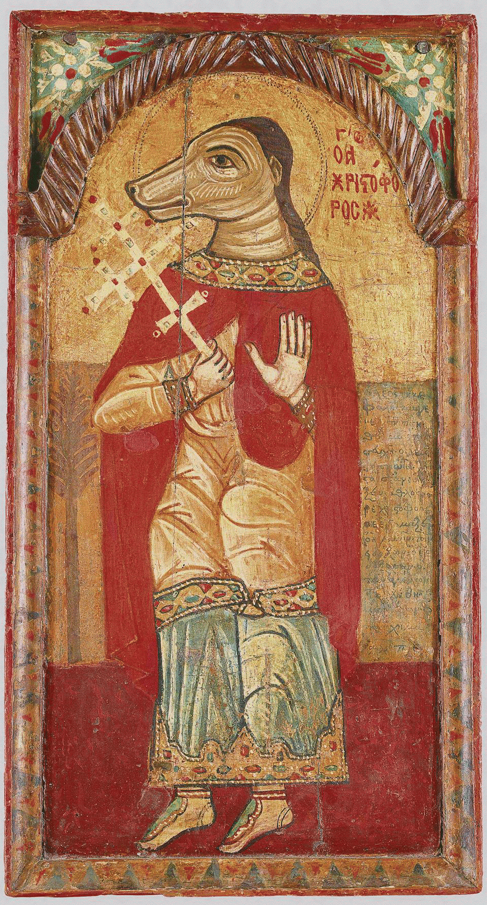 Kermira, Cappadocia St Christopher depicted with the head of a dog. From the 5th century on, it was widely believed in Byzantium that the saint was one of the mythic dog-heads, a barbarian race without the gift of human speech. Nevertheless his depiction as a dog-head had not been the dominant in the Byzantine art, since the Byzantine Church frowned upon the linking of one of its saints with the cynocephali. In the post-Byzantine art, though, especially from the 17th c. onwards, the Orthodox artists several times paint the Saint as a dog-head.